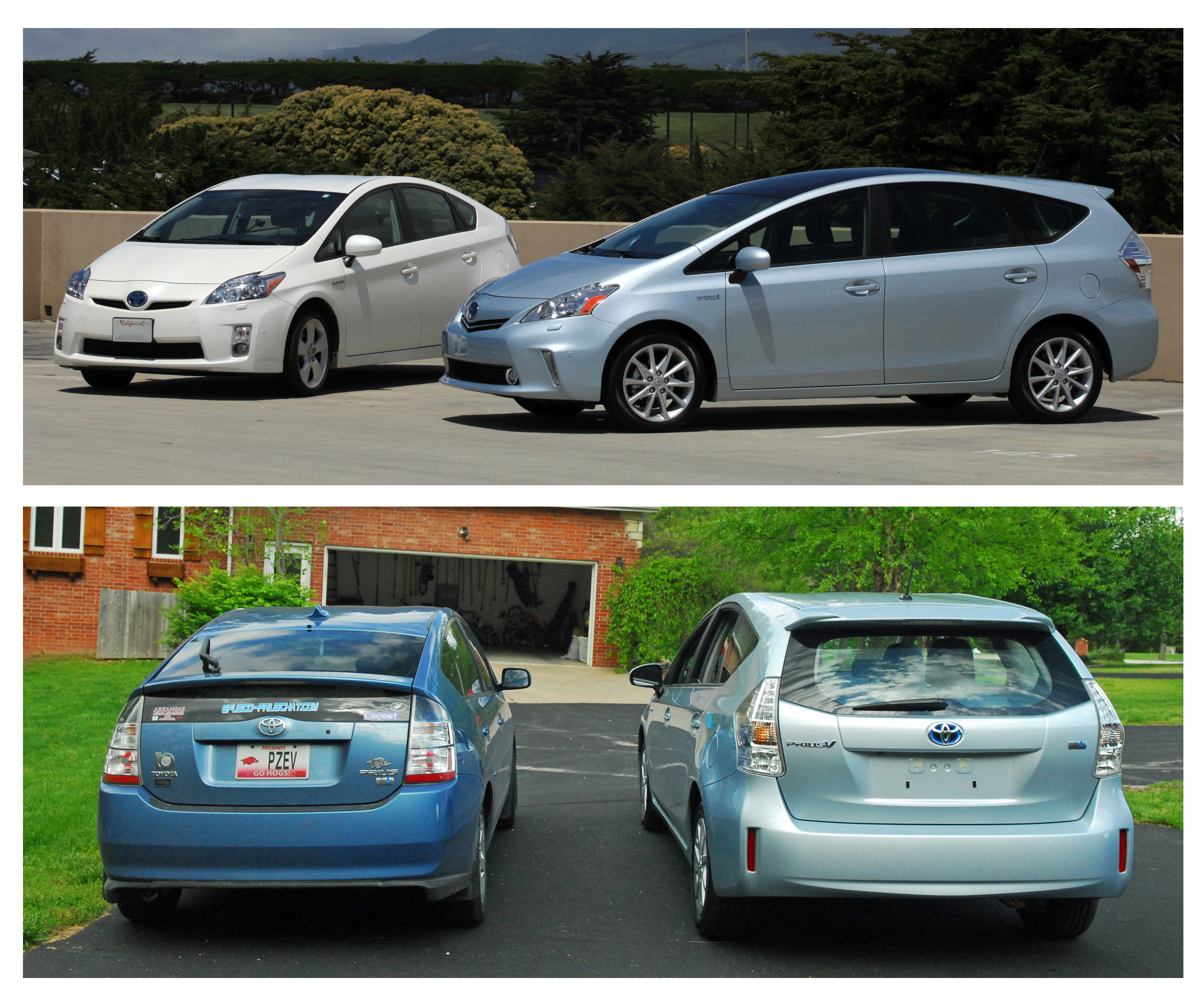 Side by side comparison of conventional Prius with Prius v. Top: frontal & lateral view. Botton: rear view. Original images by Robert Scoble (top) and Evan Fusco (botton). The top image shows a Prius third generation and the botton one a Prius second generation.